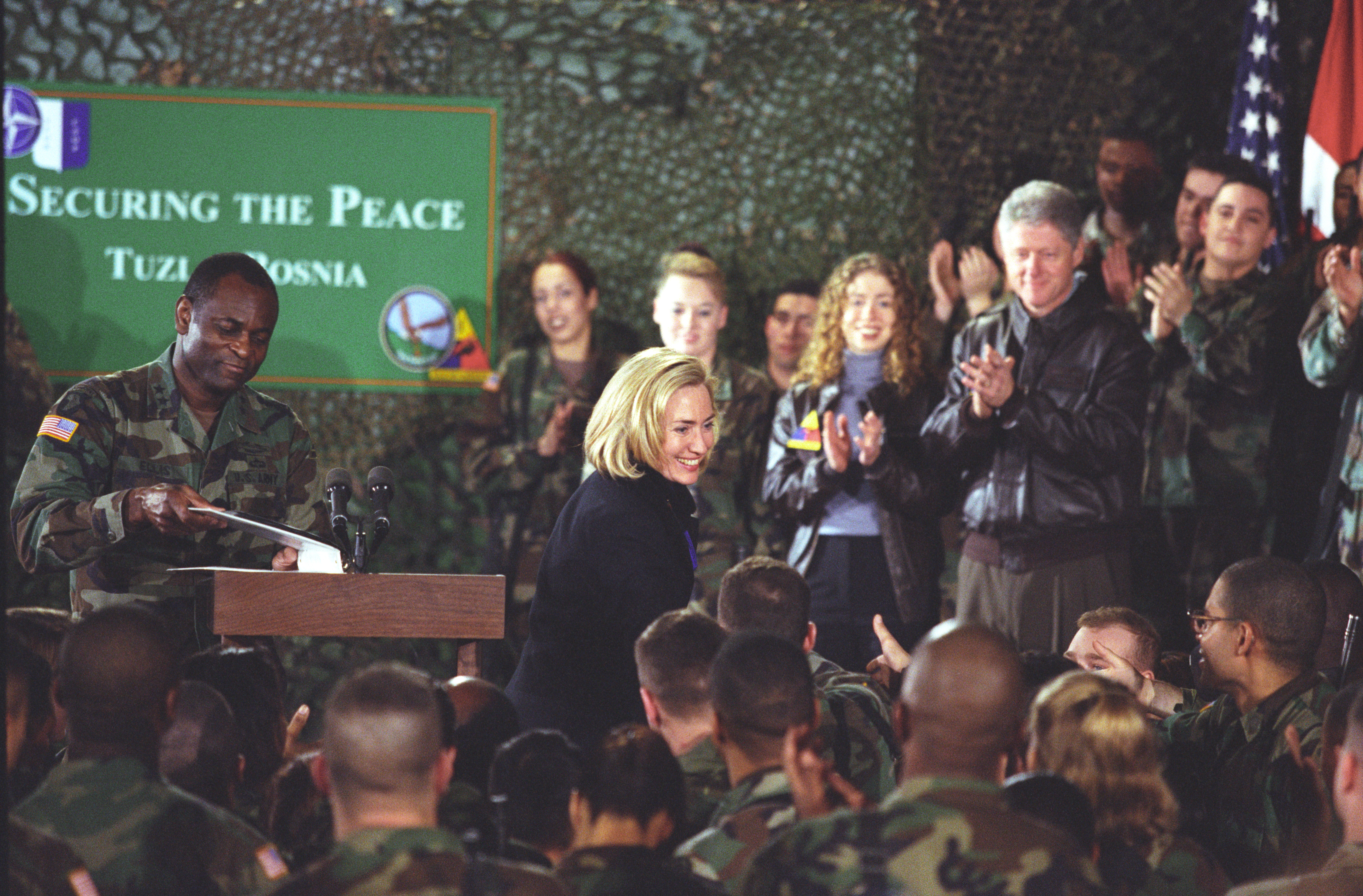 December 22, 1997 (Credit: William J. Clinton Presidential Library) \\Hosted by the Clinton Library and the Clinton Foundation, the document release was spearheaded by CIA’s Historical Review Program (HRP), which identifies, collects and produces historically relevant collections of declassified materials. The Bosnia collection—the youngest ever released in HRP’s 20-year existence—is available online at A video recording of the symposium is available at